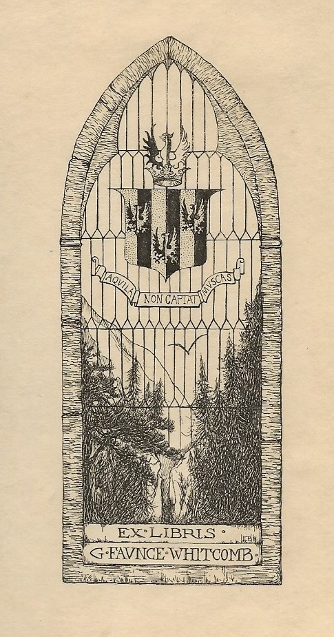 This is a Bookplate from the book: Serpent's Credo by George Faunce Whitcomb.